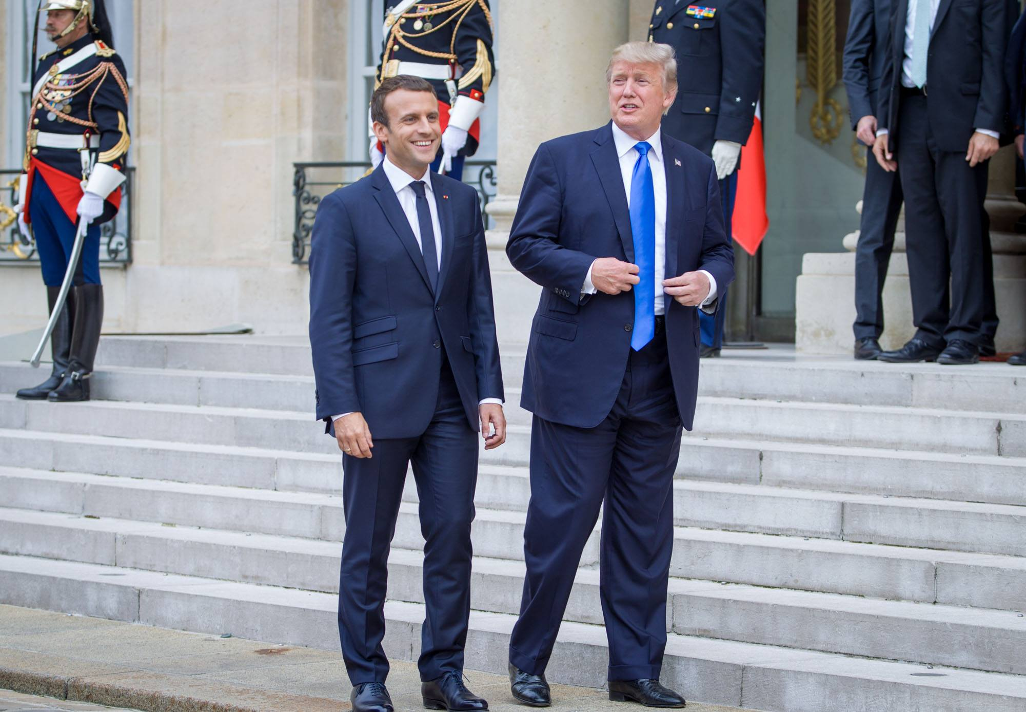 President Donald J. Trump with President Emmanuel Macron for joint press conference at Élysée – Présidence de la République française in Paris, France #POTUSinFrance